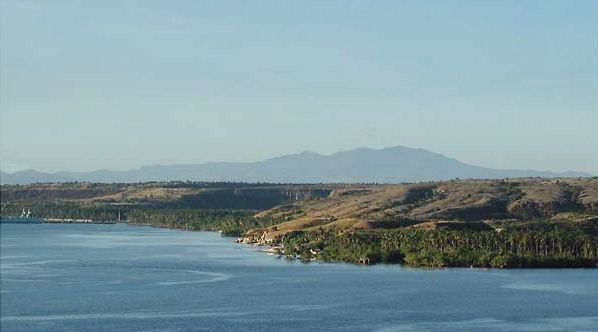 Maitum coast Original copyright holder: LDC,Inc. Foundation. Now released as GFDL. For verifications .